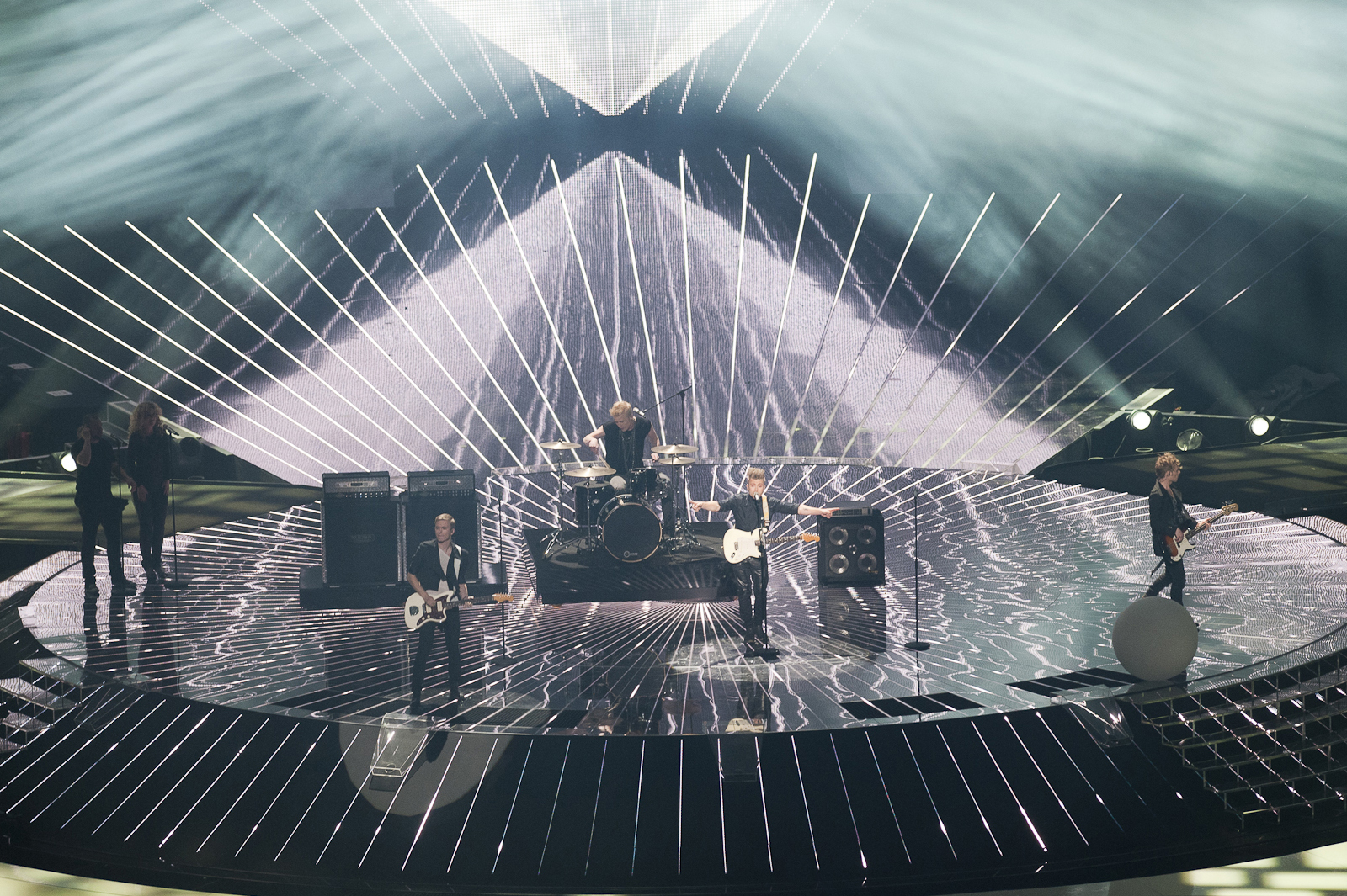 A Friend in London from Denmark performing "New Tomorrow" at Eurovision Song Contest 2011 in Düsseldorf